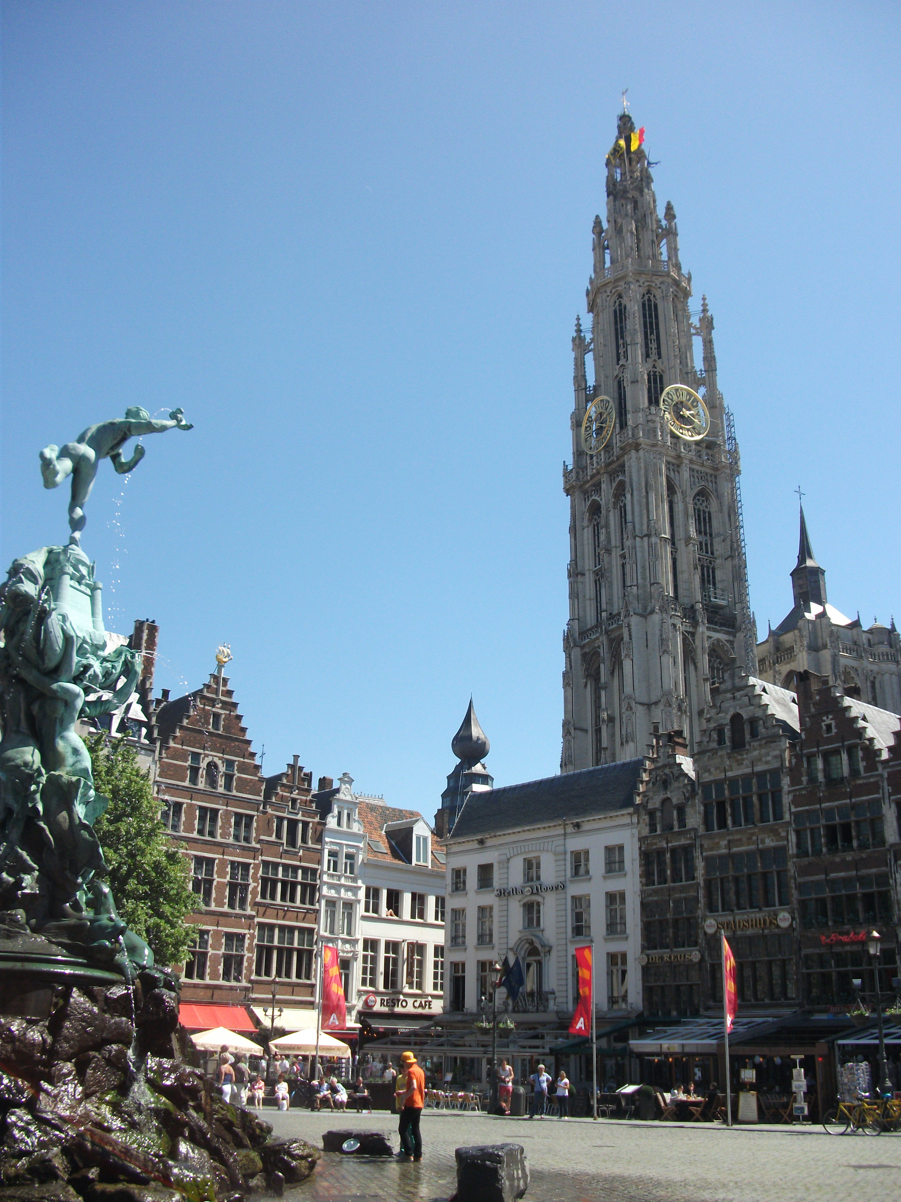 De Reus Café at Grote Markt 22, Antwerp.